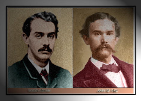 Tomas Herran and John Hay, signees of treaty by same name.